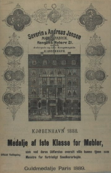 Advertisement for Severin & Andreas Jensen, furniture factory in Copenhagen.